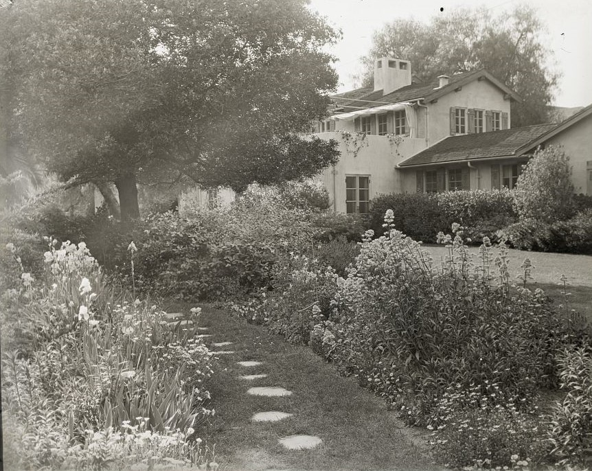 Title [Charles Francis Paxton house, 1160 South Orange Grove Boulevard, Pasadena, California. Pathway] Contributor Names Johnston, Frances Benjamin, 1864-1952, photographer Created / Published [1923 spring] Subject Headings - Gardens--California--Pasadena--1920-1930 - Houses--California--Pasadena--1920-1930 Format Headings Lantern slides--1920-1930. Notes - Site History. House Architecture: Reginald Davis Johnson, completed 1919. Landscape: Renelje Schenck (Mrs. Charles F.) Paxton. Today: House relocated to South Pasadena. - Title, date, and subject information provided by Sam Watters, 2011. - Forms part of: Garden and historic house lecture series in the Frances Benjamin Johnston Collection (Library of Congress). - Condition caution: unmounted slide. - Penciled on sleeve (not by FBJ?): no. # "452" and "Kerr gardens, Portland (see print)" a misidentification. Medium 1 photograph : glass lantern slide, b&w ; 3.25 x 4 in. Call Number/Physical Location LC-J717-X110- 27 [P&P] Repository Library of Congress Prints and Photographs Division Washington, D.C. 20540 USA Digital Id ppmsca 16924 //hdl.loc.gov/loc.pnp/ppmsca.16924 Library of Congress Control Number 2008679224 Reproduction Number LC-DIG-ppmsca-16924 (digital file from original item) Rights Advisory No known restrictions on publication. Online Format image Description 1 photograph : glass lantern slide, b&w ; 3.25 x 4 in. LCCN Permalink